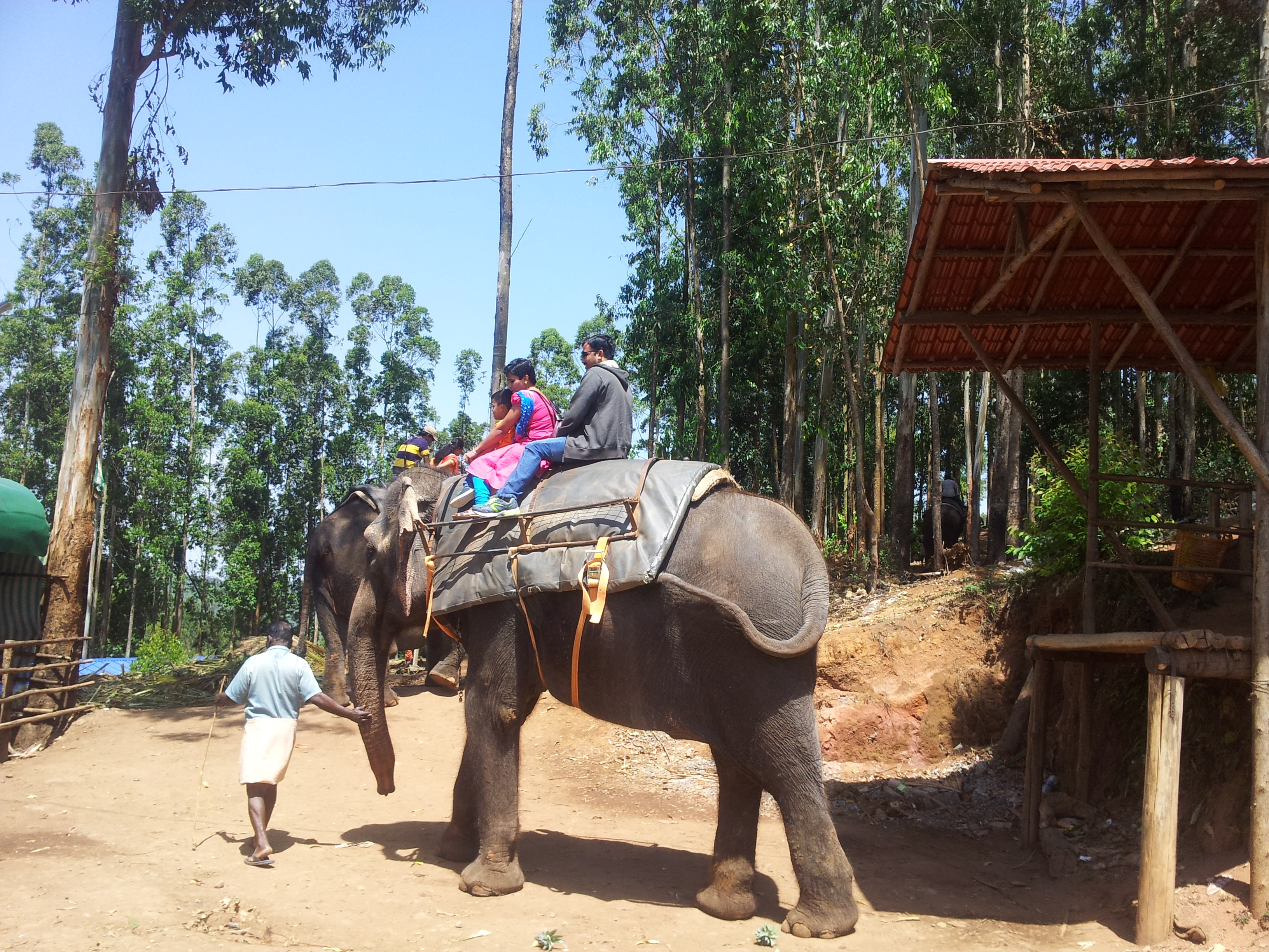 A photo of elephant ride at Carmelagiri Elephant Park, Munnar